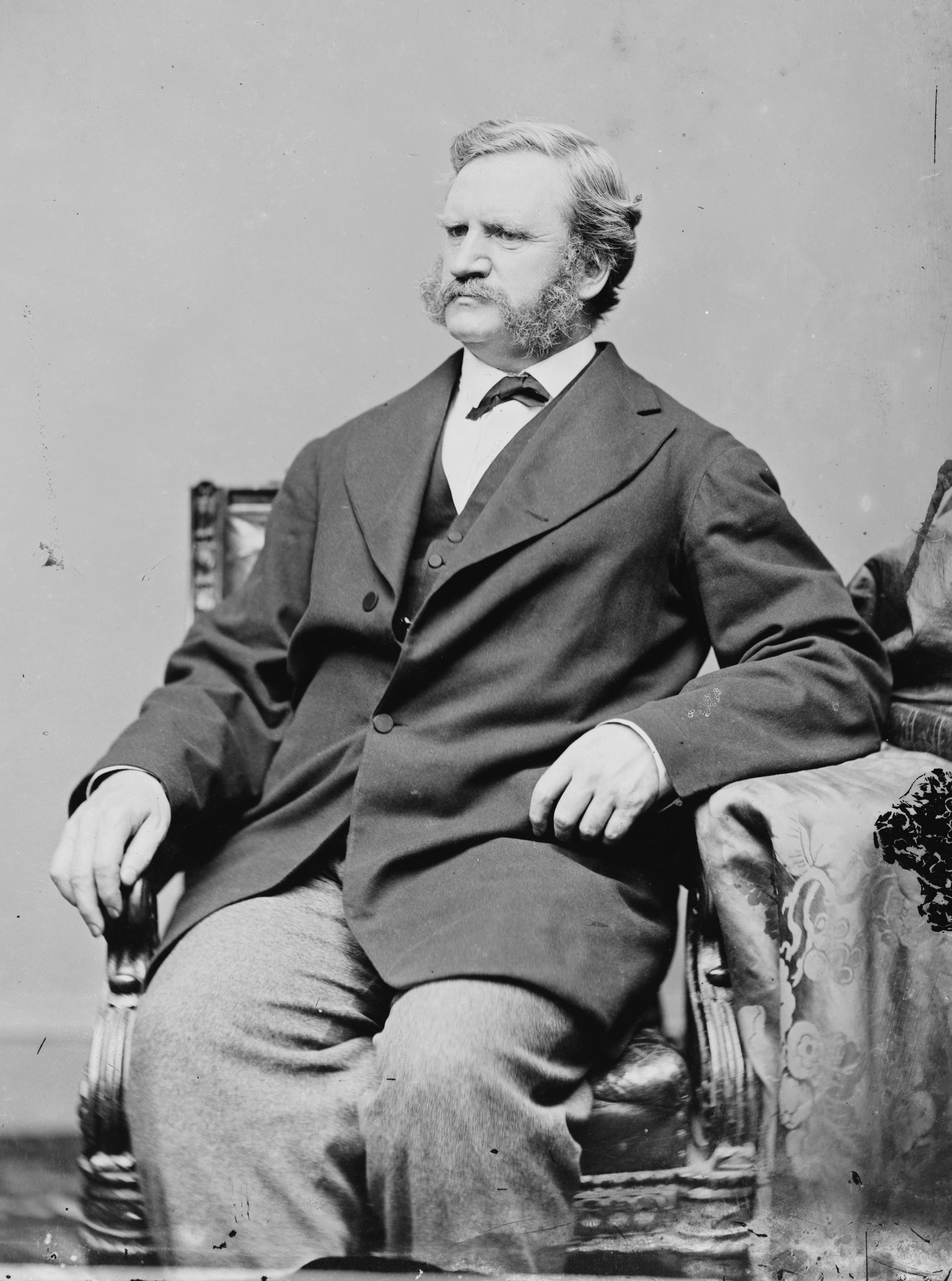 George W. Morgan. Library of Congress description: "Hon. George Washington Morgan of Ohio"